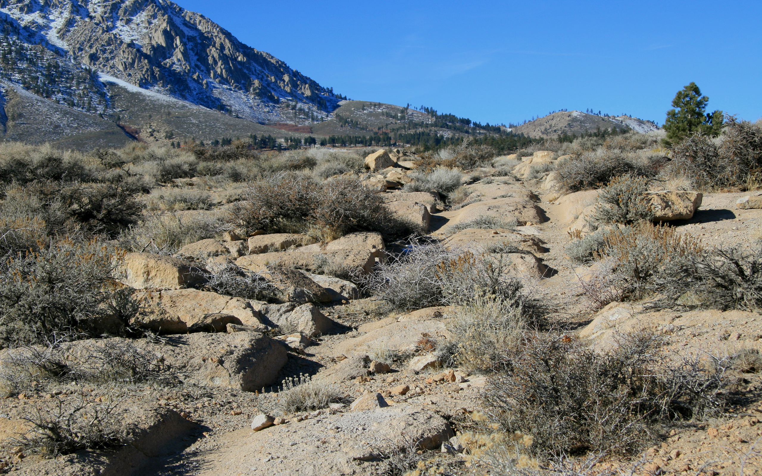 Old wagon road up the Sherwin Grade, near U.S. 395 and the Eastern Sierra, Mono County, eastern California. It travelled up from the Owens Valley (~4000ft) to Swall Meadows (~7000ft), with tracks worn into rock. View looking uphill toward Swall and the Wheeler Crest.